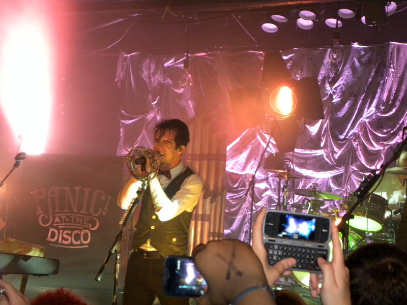 Brendon Urie (center) and Panicǃ at the Disco performing in 2011.